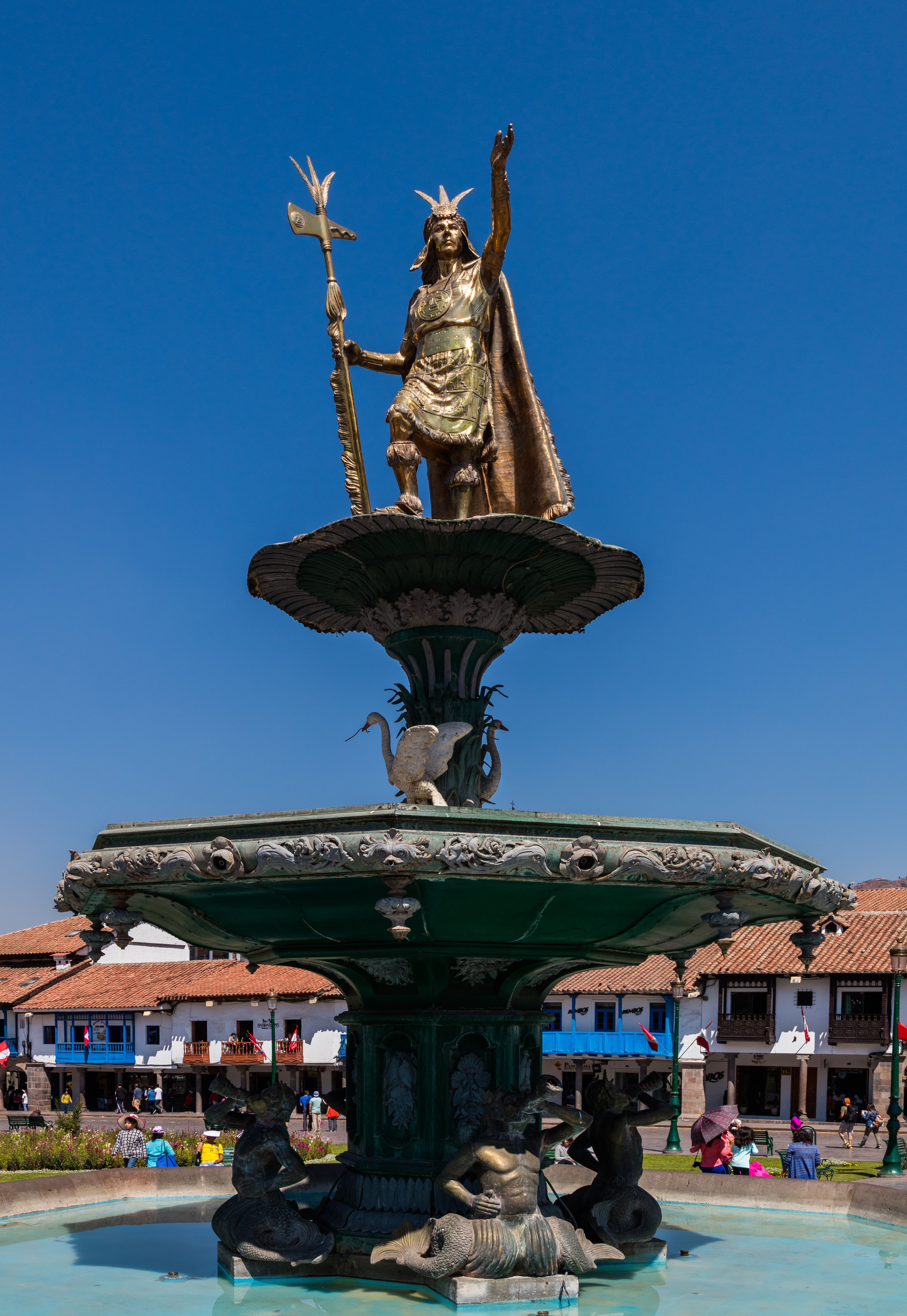 Monument to the Incas, Plaza de Armas, Cusco, Peru